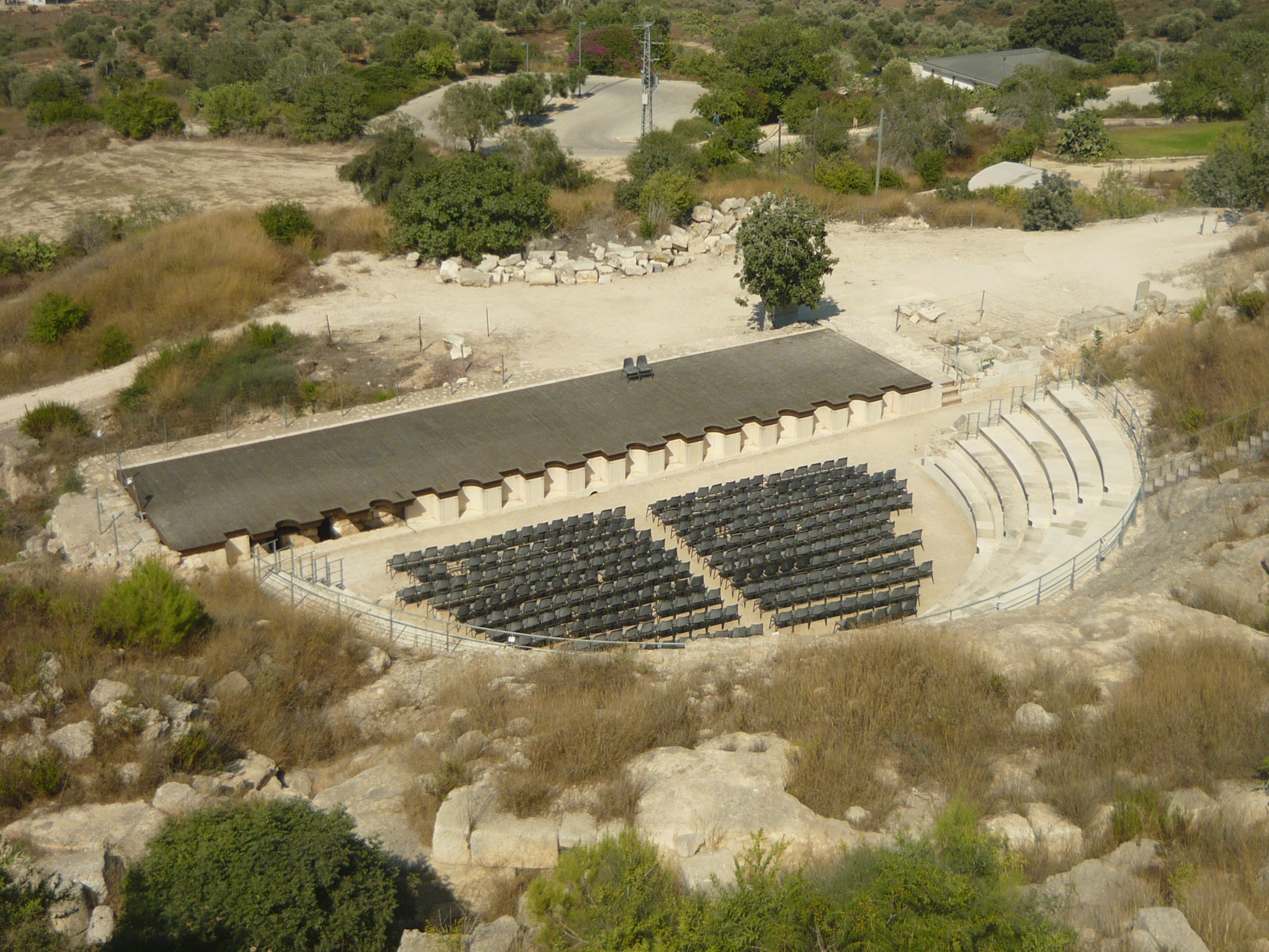 Theater in ancient zippori אמפיתיאטרון בעתיקות ציפורי